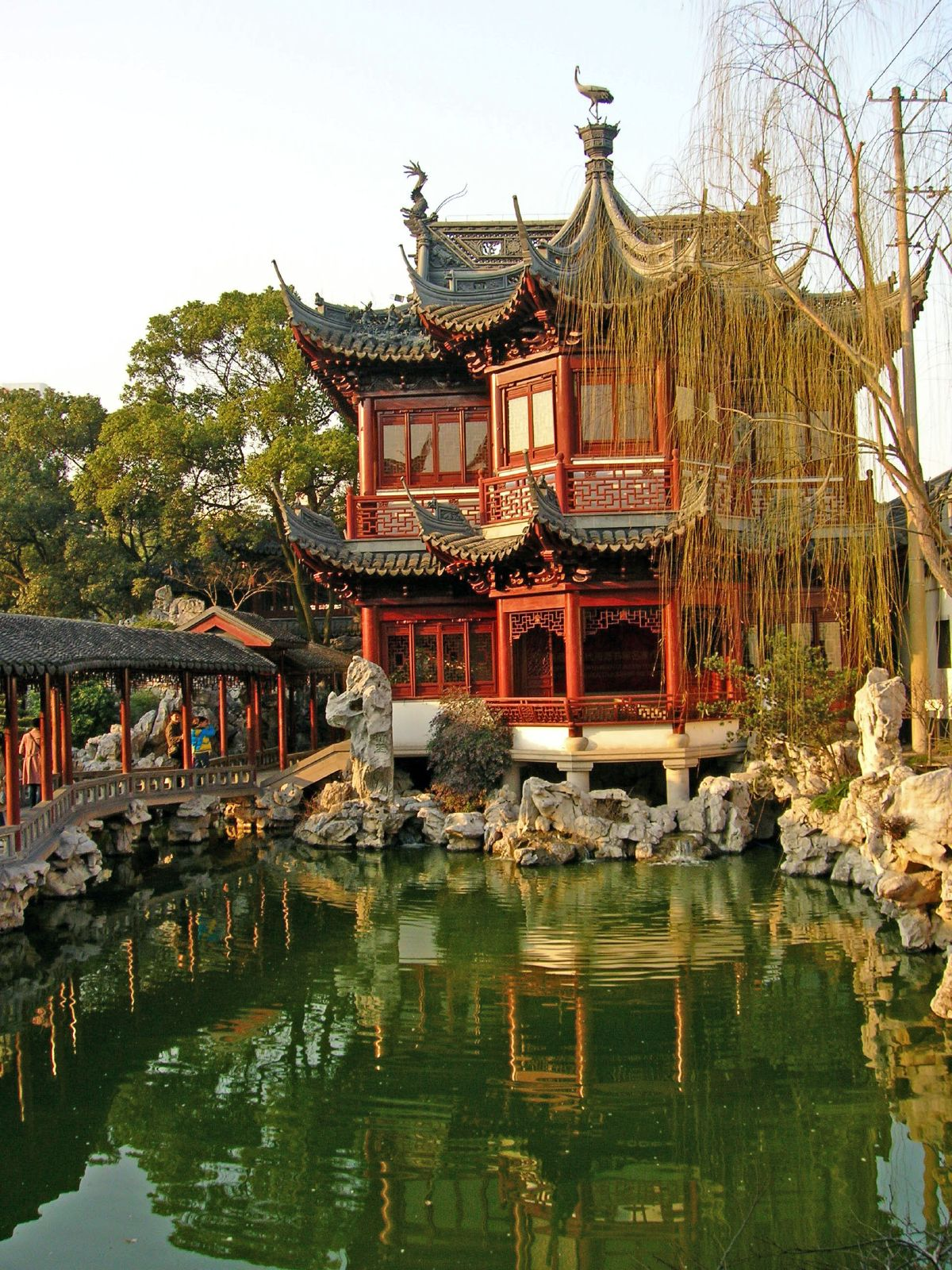 Jade Rock and Ting Tao Tower at Yuyuan Gardens in Shanghai